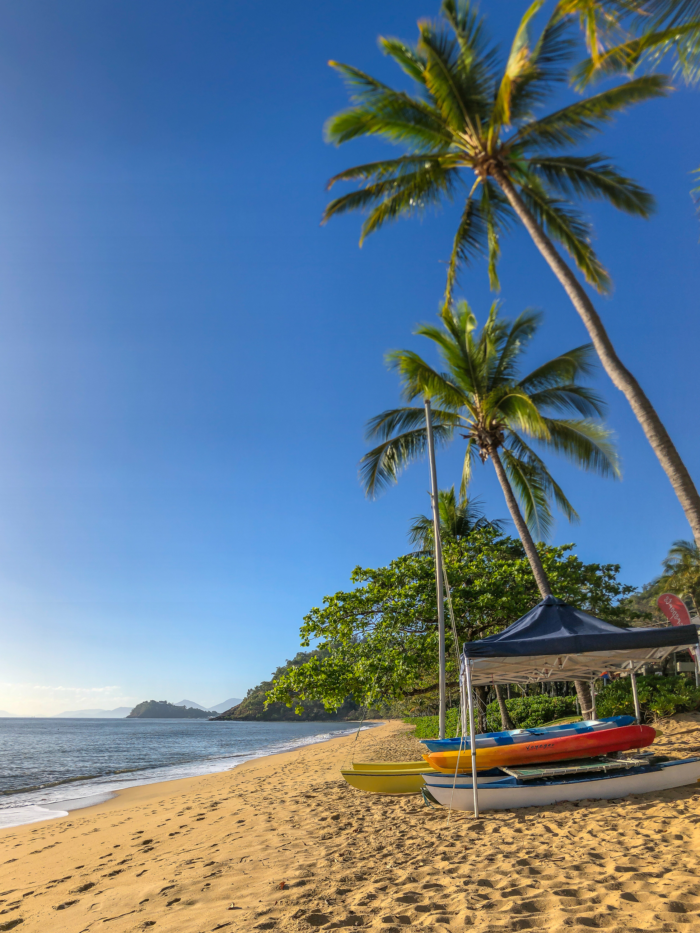 Looking south along Trinity Beach on a sunny September afternoon. Resorts, holiday apartments, restaurants, cafes and boutiques line the sandy foreshore area.